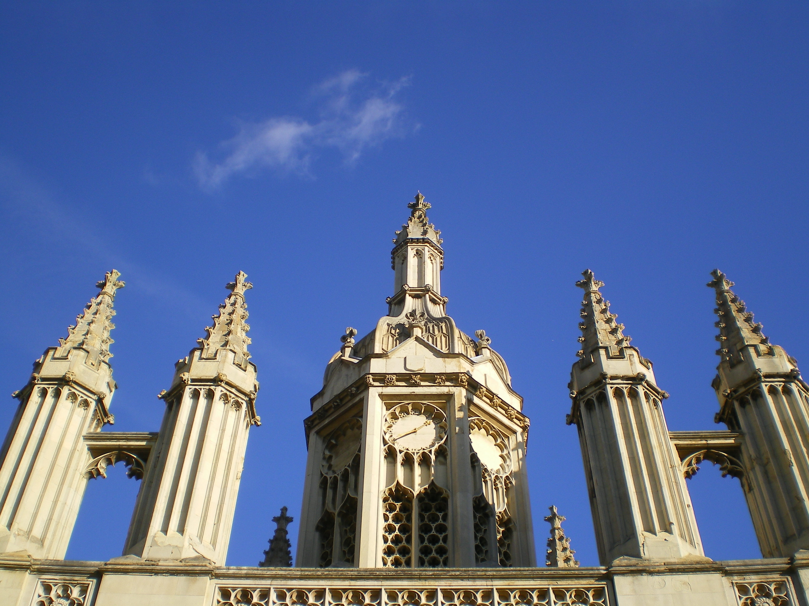 Porters' lodge clock at King's College Cambridge. Architect: William Wilkins.